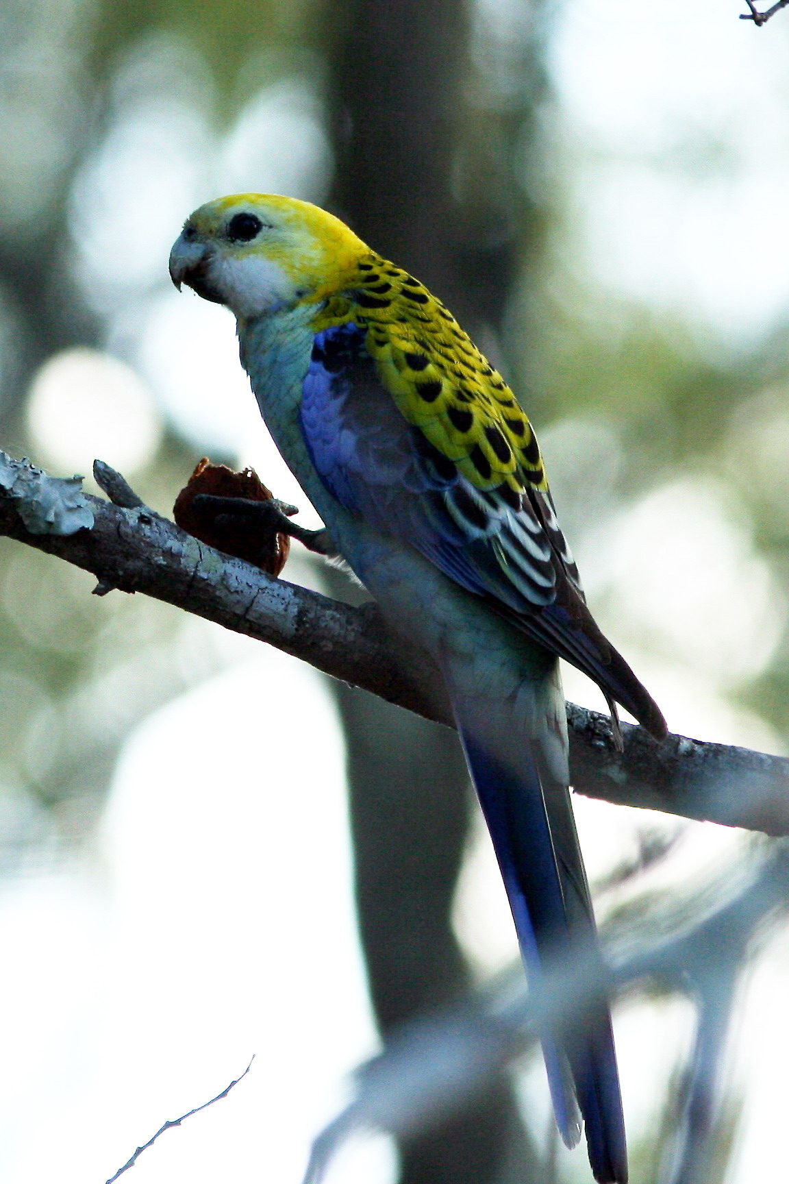 Pale-headed Rosella, Platycercus adscitus